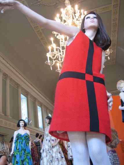 Minidress designed by John Bates for Jean Varon, 1965. This particular design is from the Jean Varon Avengerswear collection which was based on Bates's own designs for Diana Rigg as Emma Peel. Exhibited at the Fashion Museum, Bath, 2006